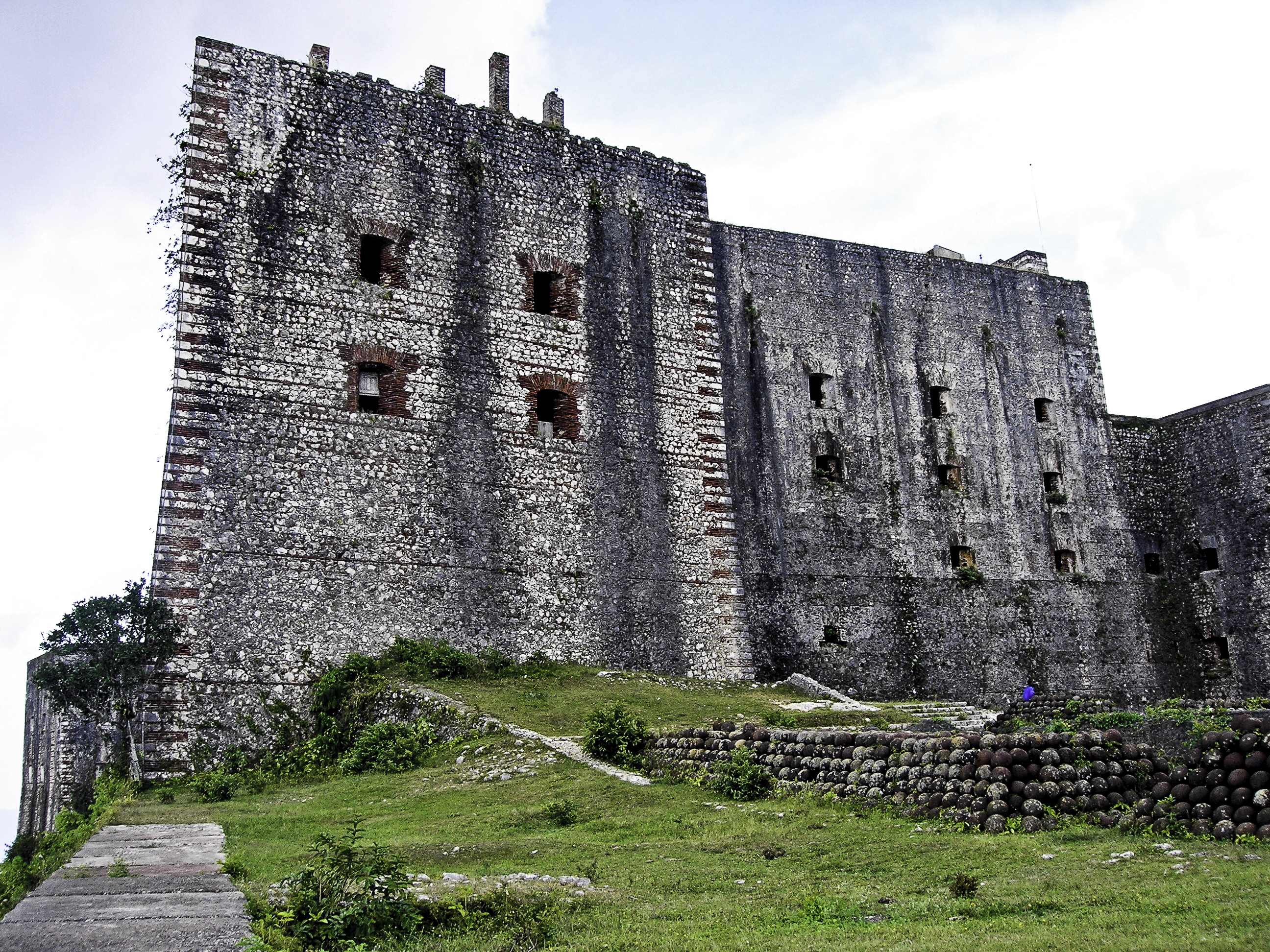 The Citadelle Laferrière, near Milot in Haiti : the back wall.